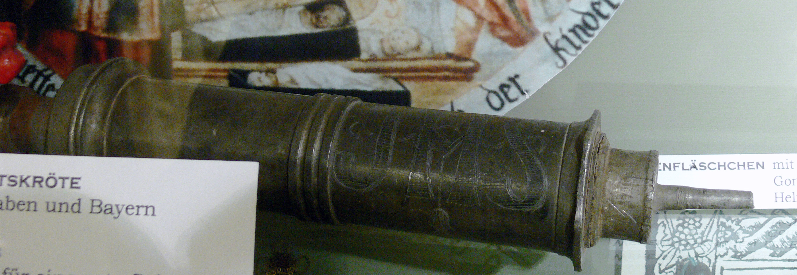 Syringe for emergency baptisms, Germany, c. 1800. Museum für Klosterkultur, Weingarten (Württemberg), Germany.